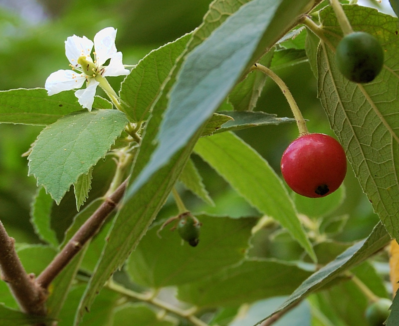 Flower and fruits of Muntingia calabura, Central Kalimantan, IndonesiaBahasa Indonesia: Bunga dan buah kersen, Hanau, Kotim